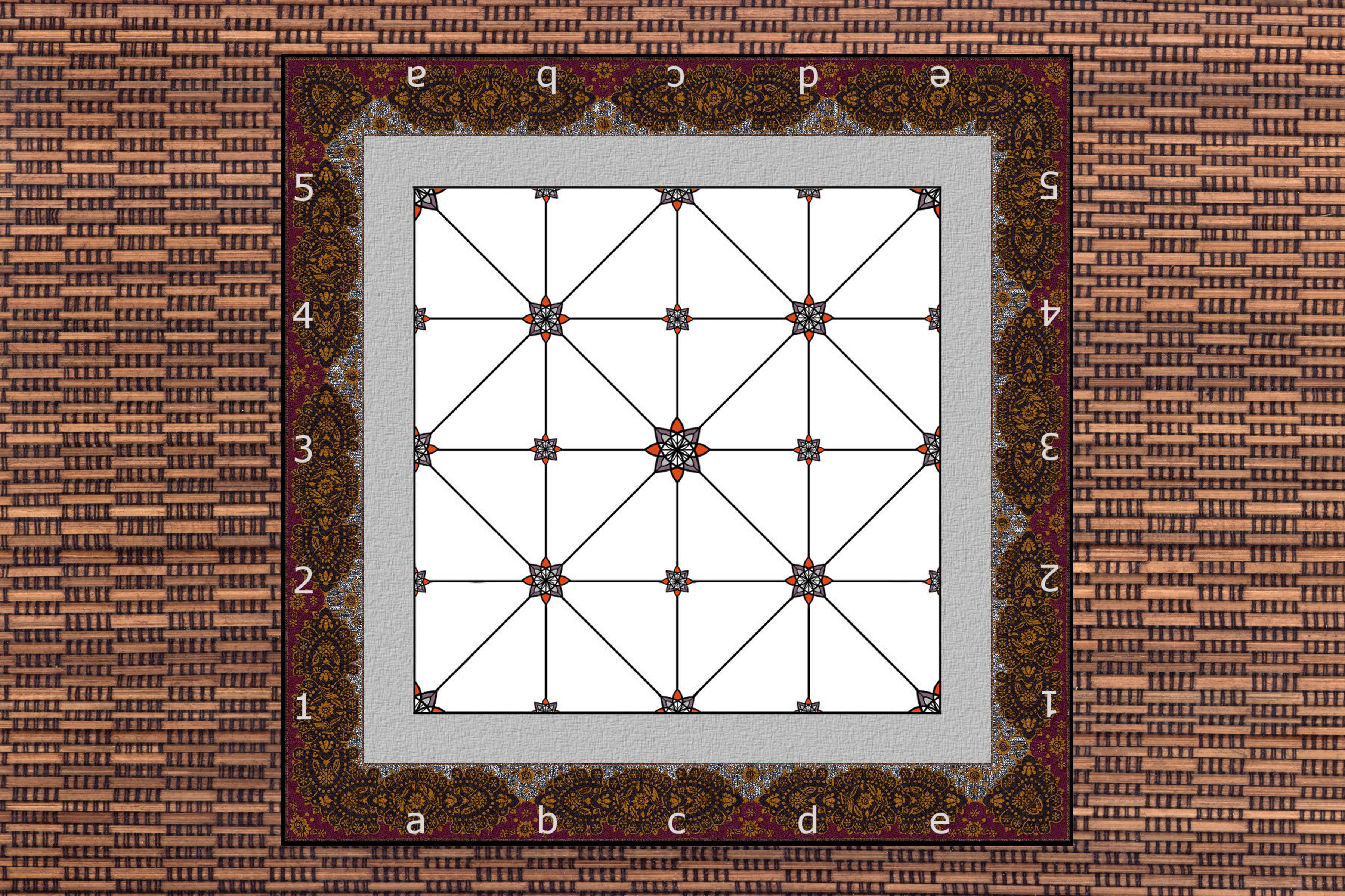 Alquerque is a medieval Spanish board game closely influenced and originated from the Middle East also known there as the game called Quirkat, Qirkat, or El-Quirkat. Due to its origin it is popular to use Moorish design elements for this abstract board game. Game pieces of players are placed on intersections of the line pattern on board. The algebraic notation to identify the positions for game pieces ease to discuss or annotate game situations and move history during play.